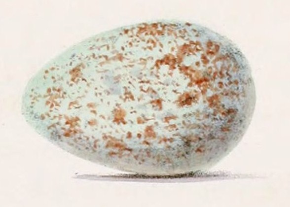 « Turdus grayii » = Turdus grayi (Clay-colored Thrush) - egg